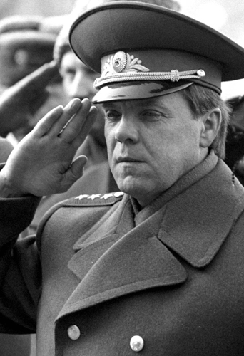 General Boris Gromov.